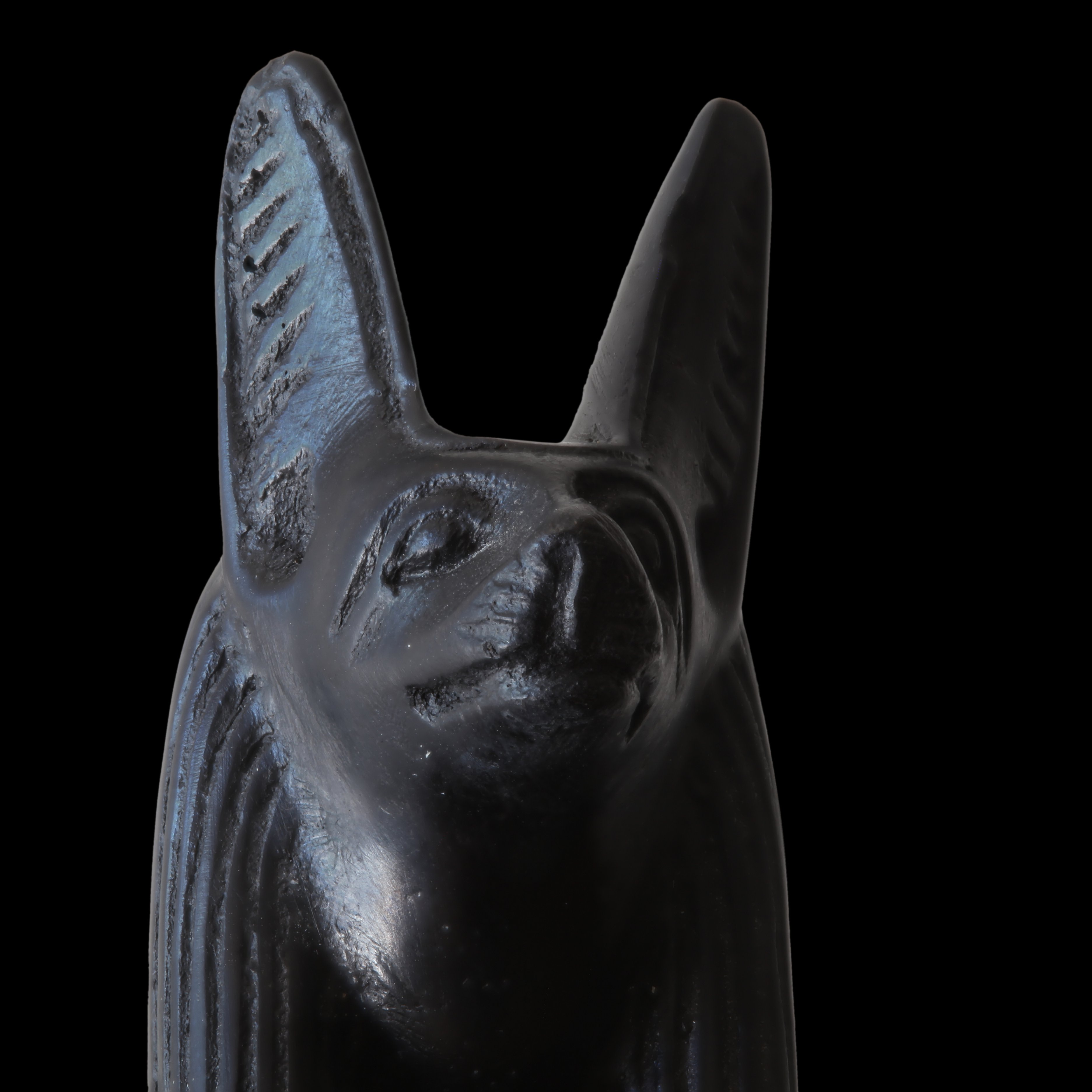 Reproduction of a statuette of Anubis (detail). 19 cm overall, area photographer 4 cm high.